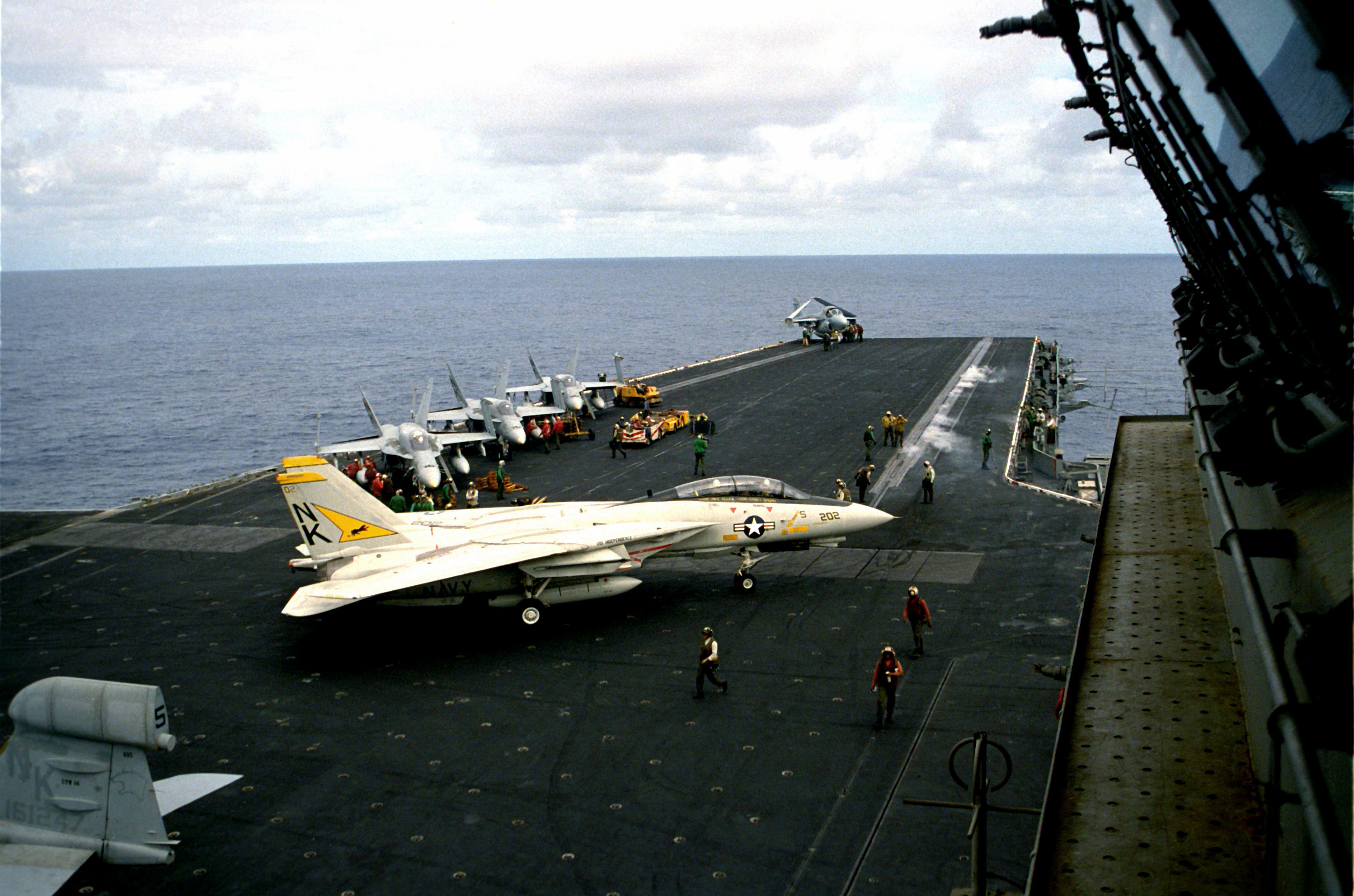 A U.S. Navy Grumman F-14A Tomcat from Fighter Squadron 21 (VF-21) "Free Lancers" is positioned on the flight deck of the aircraft carrier USS Independence (CV-62) on 1 December 1990. VF-21 was assigned to Carrier Air Wing 14 (CVW-14) aboard the Independence for a deployment to the Western Pacific and the Indian Ocean from 23 June to 20 December 1990.